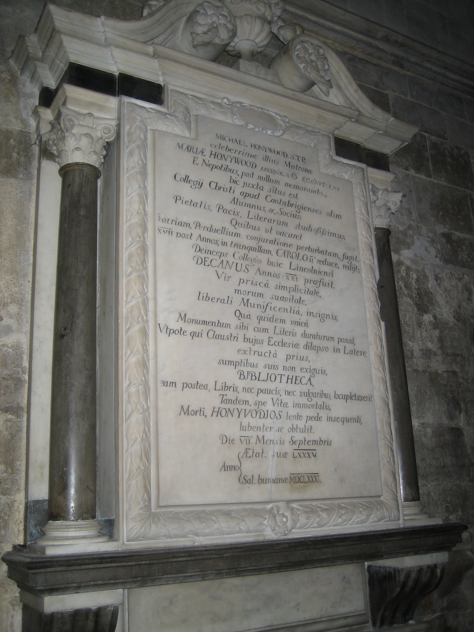 Tomb of Michael Honywood, Dean of Lincoln post-restoration